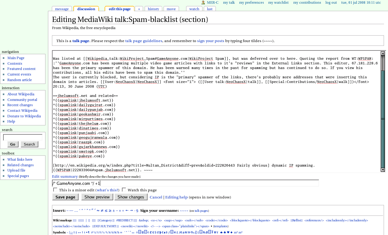 Filing a blacklisting request.